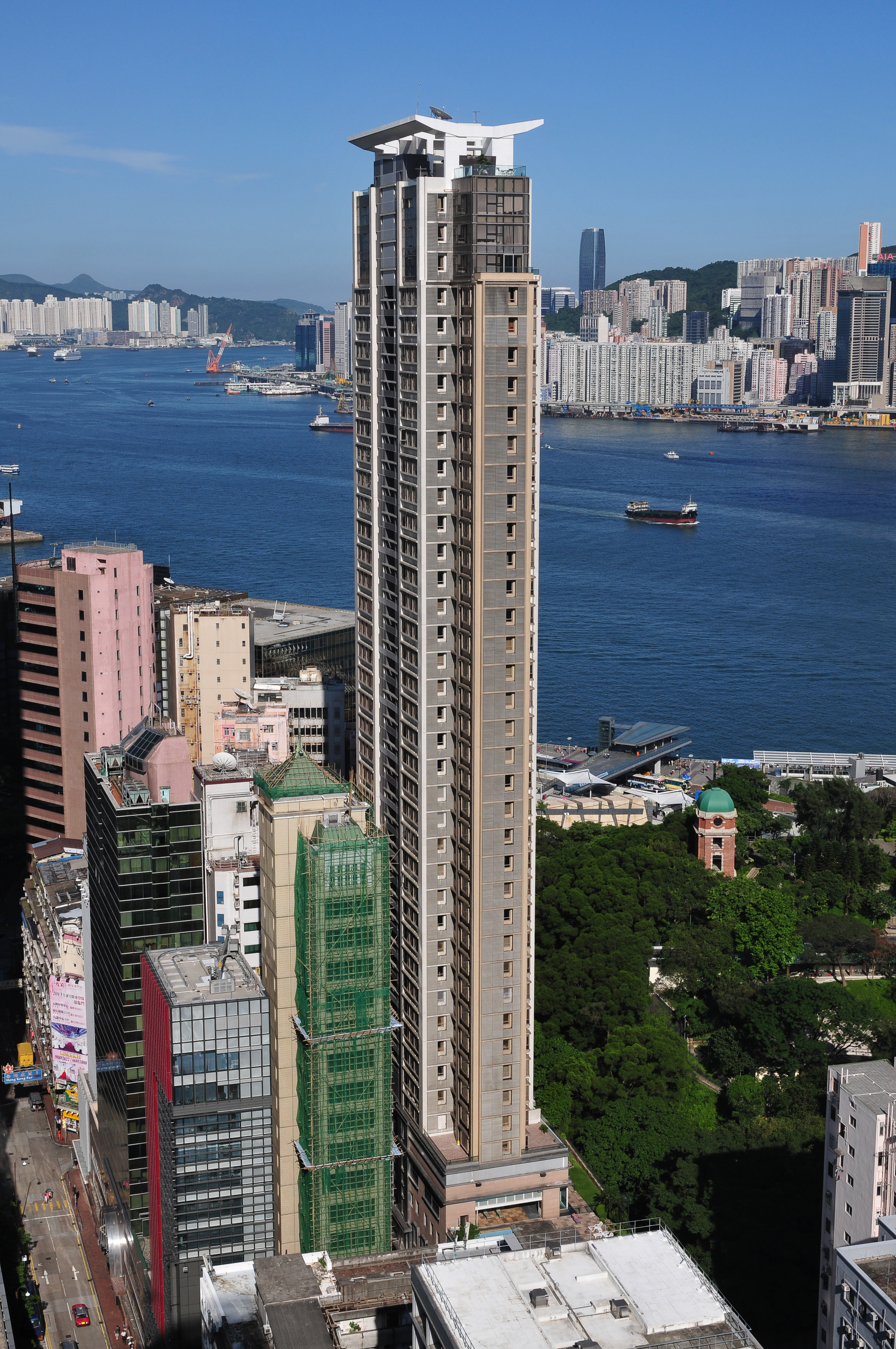 Skyscraper in Hong Kong